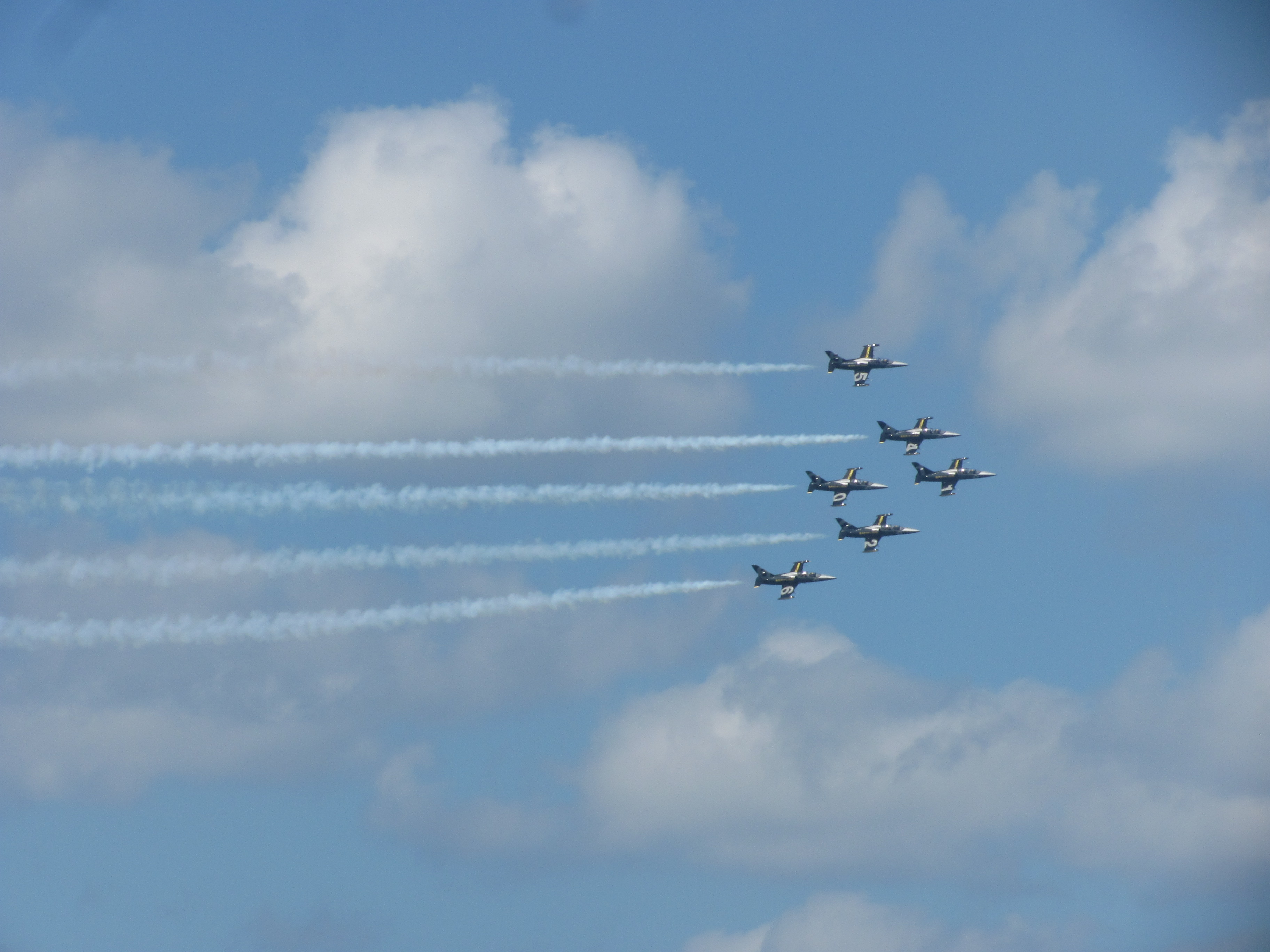 The Breitling Jet Team display in Tel Aviv.